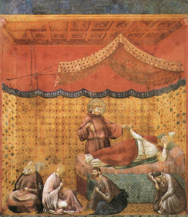 Legend of St Francis